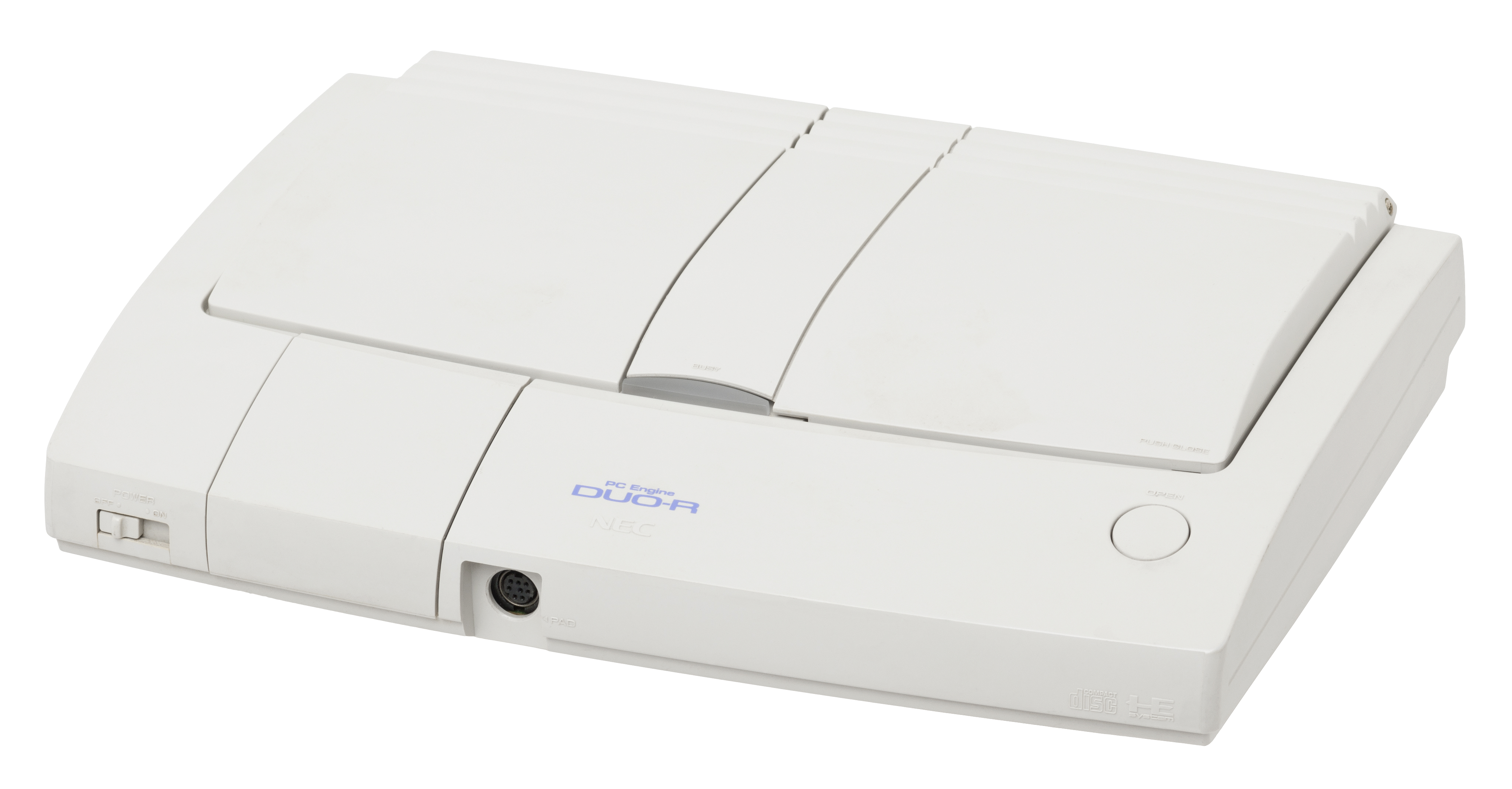 The PC Engine Duo R video game console. One of the many different versions of the PC Engine released in Japan.